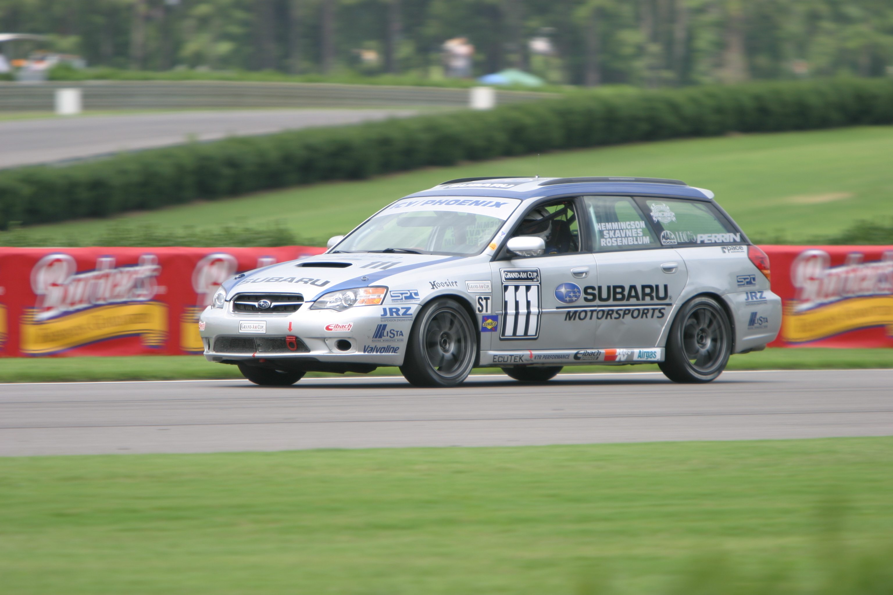 Subaru Legacy 2.5GT Touring Wagon (BP9). Yes, that's a station wagon in this race. He didn't do babdly either, finishing 19th out of 71 entries.